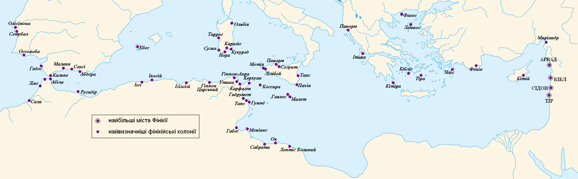 Maps of Phoenician Colonies (ukrainian)